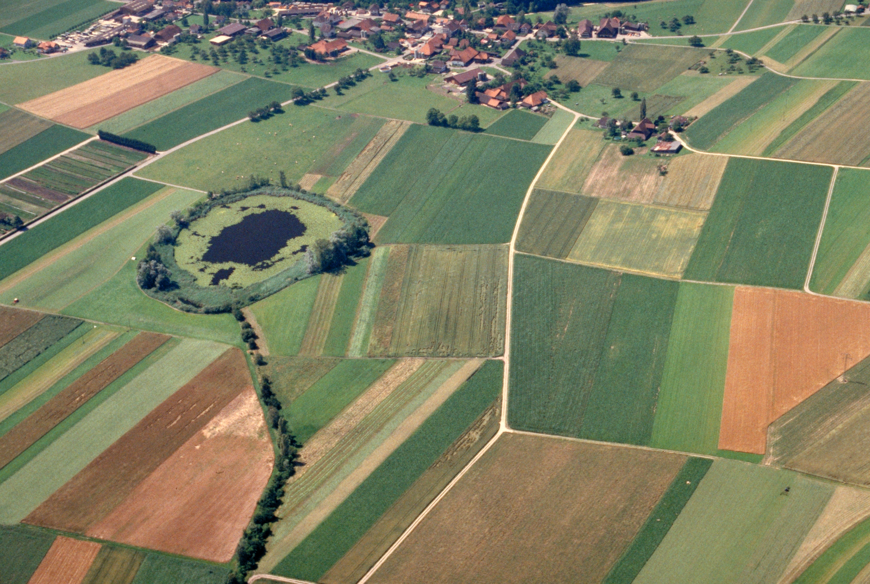 Lobsigesee - Lake with outflow Seebach and hamlet Lobsigen in the background